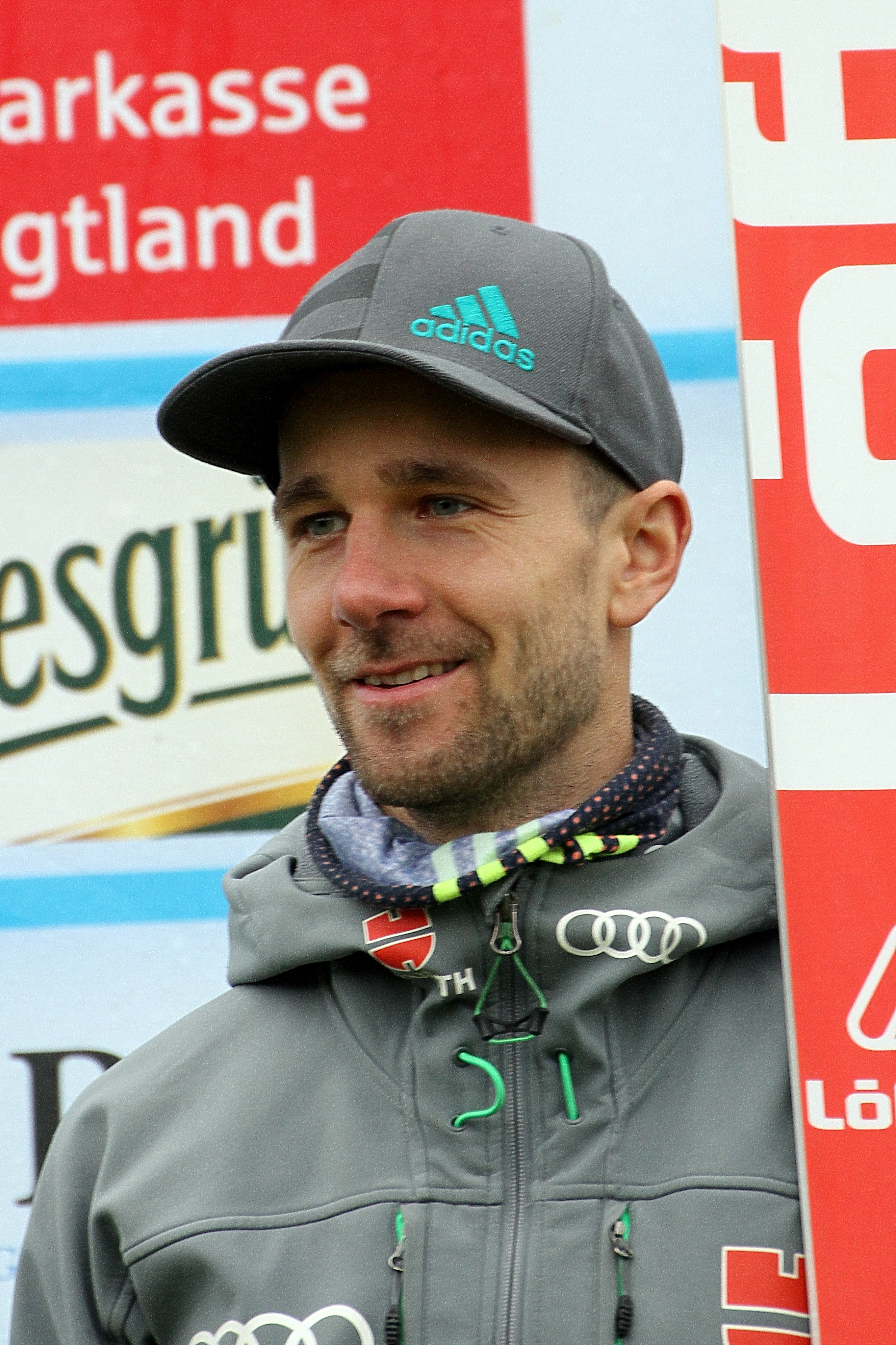 FIS Ski Jumping Summer Continental Cup Klingenthal 2017 Pius Paschke